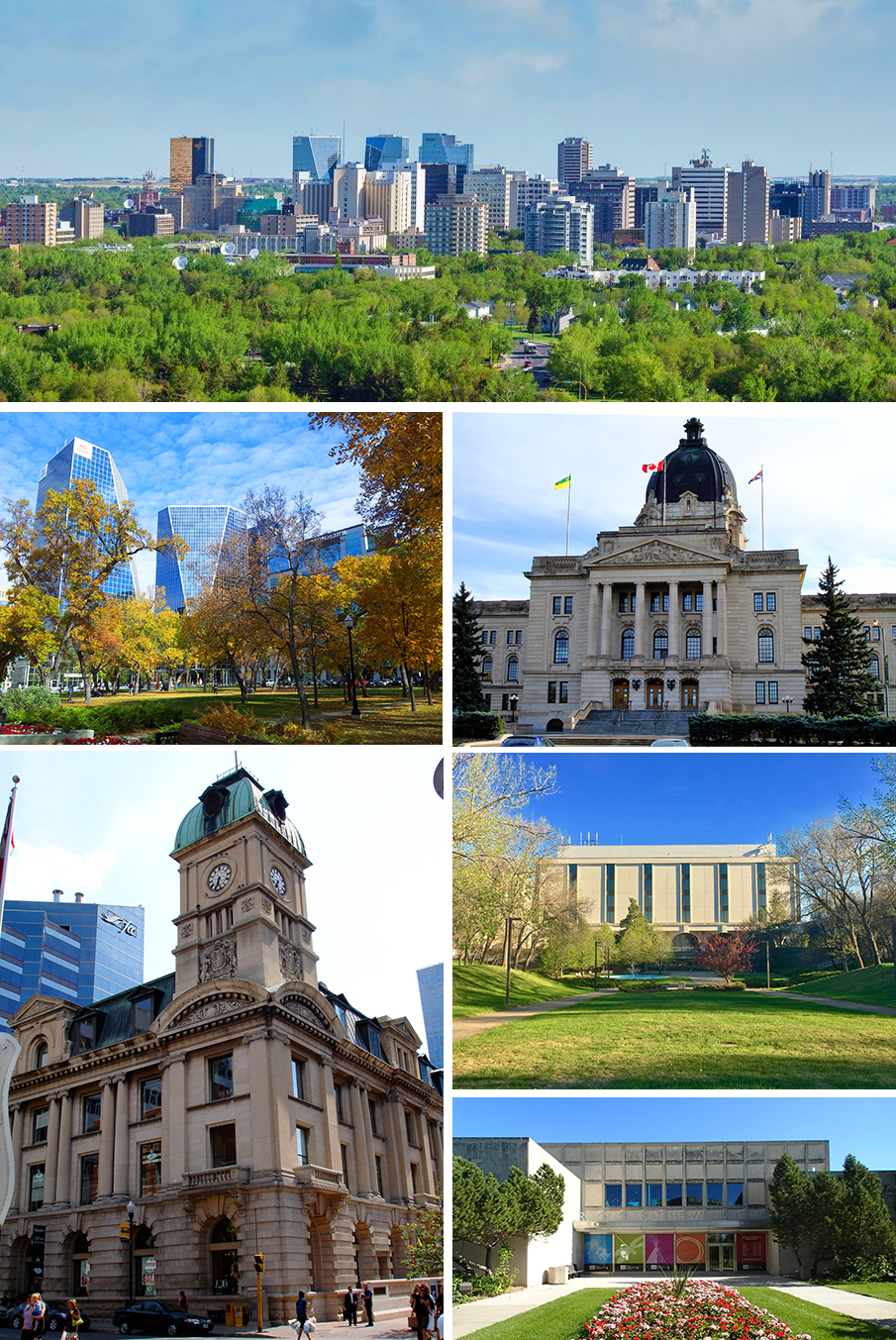 This is a montage of Regina for 2020